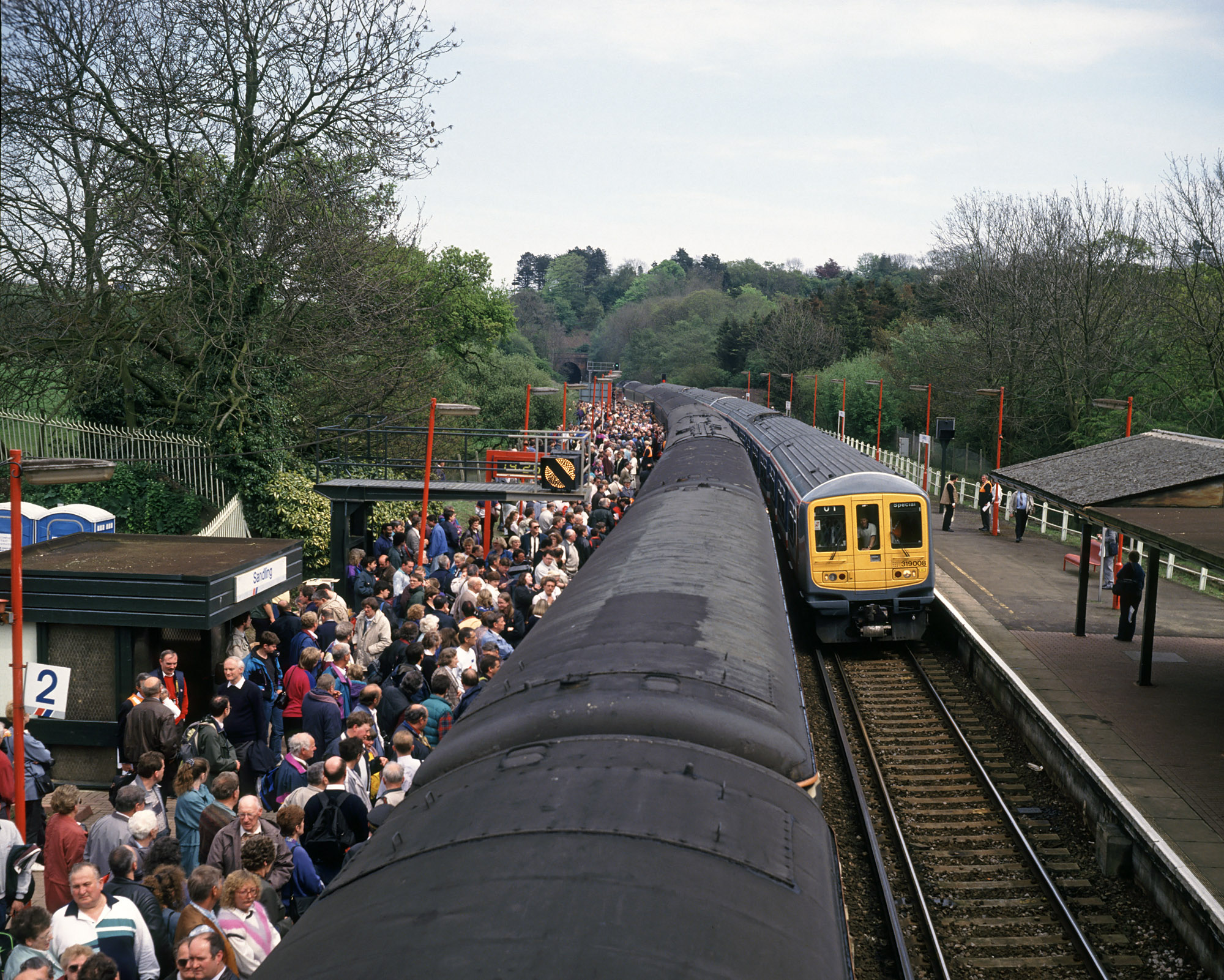 Probably more people than Sandling railway station platform has ever seen; on the left passengers disembark from the 'Tunnel Explorer' excursion, and on the right 319008 arrives with one of the trips back from the Channel Tunnel. This was on 5 May 1994 as part of the "Folkstone 1994" celebrations; the two units 319008/319009 had previous made a full crossing of the Channel Tunnel on 10 December 1993